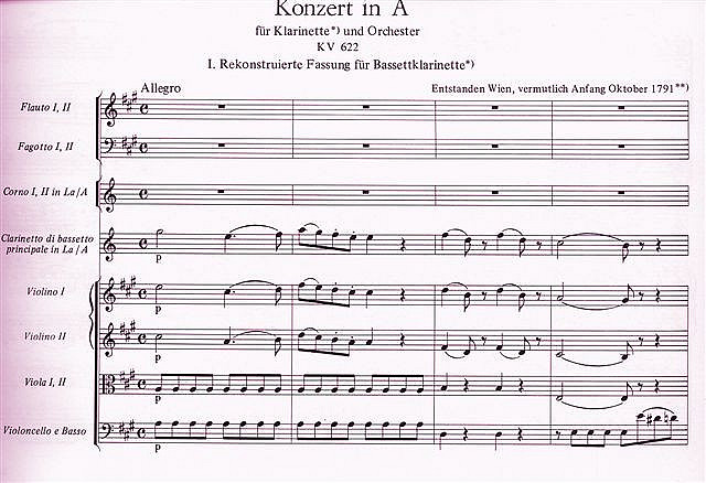 K.622